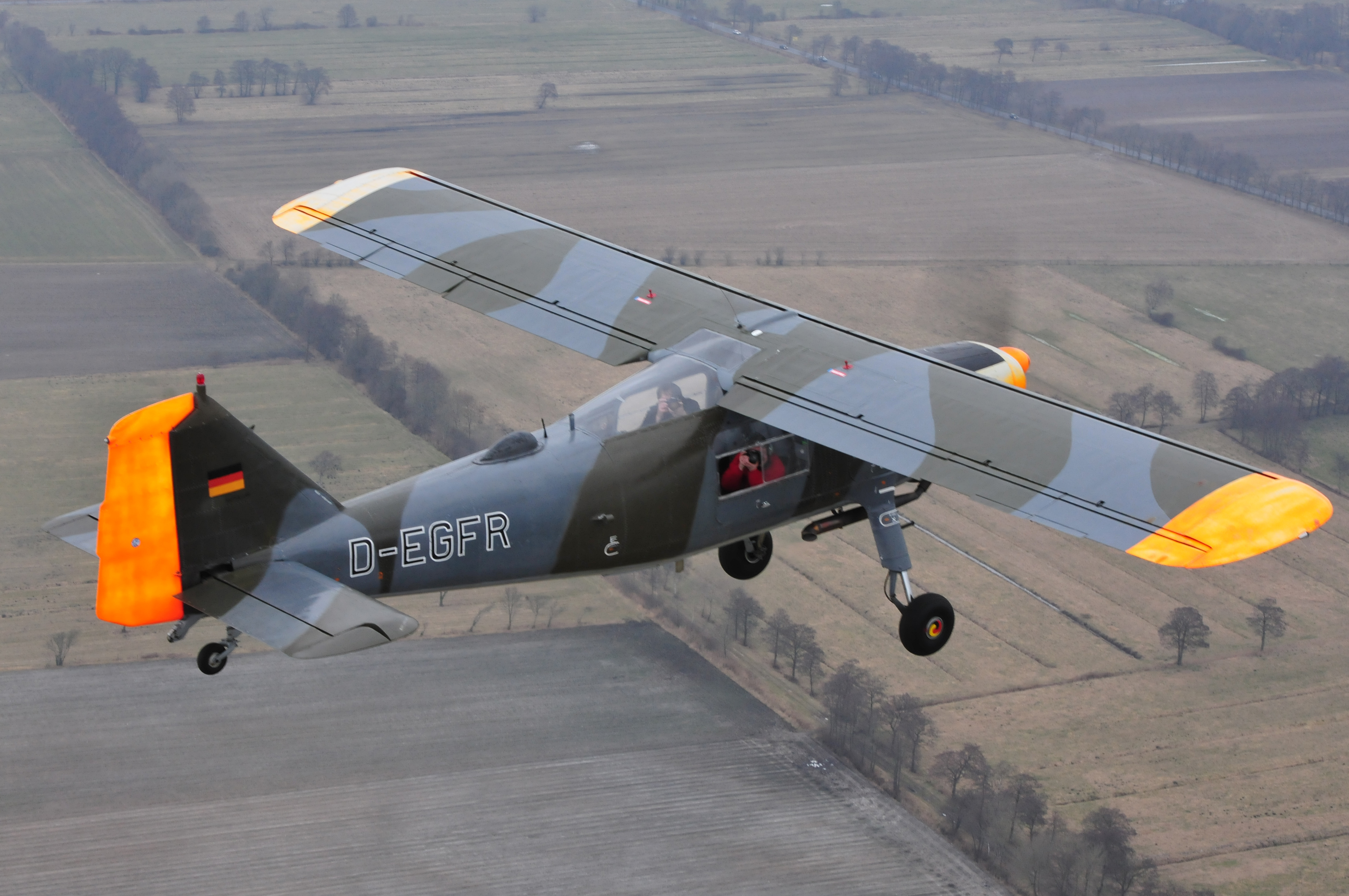 Dornier Do 27